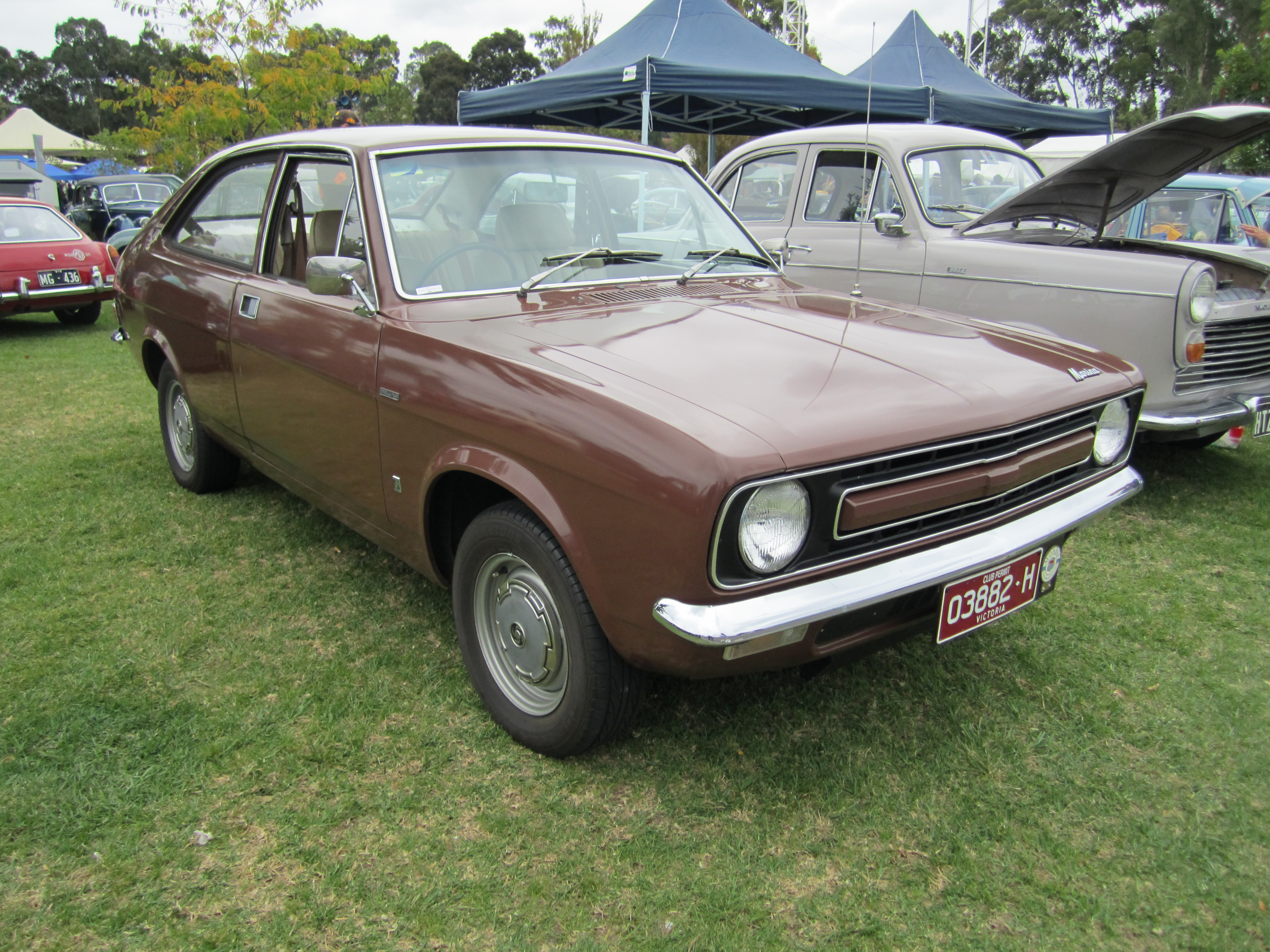 1972-73 Australian built Morris Marina Deluxe Coupe. The Marina was built by Leyland Australia from CKD kits from the UK from 1972 to 1975. Australian Morris Marinas were available in Deluxe, Super Deluxe & TC models in Sedan and Coupe body styles with 1485cc and 1746cc four cylinder engines. In 1973 the Australian Marina was renamed to Leyland Marina, given a facelifted and offered with a 2620cc six cylinder engine option.